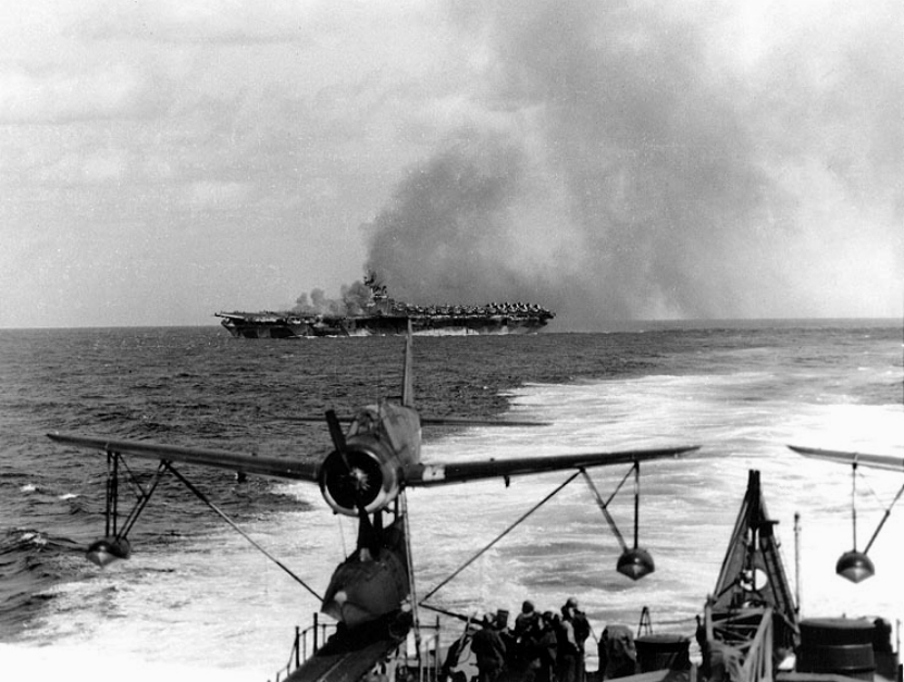 USS Ticonderoga (CV-14) afire after she was hit by a "Kamikaze" attack off Formosa, 21 January 1945. Photographed from USS Miami (CL-89). A Vought OS2U "Kingfisher" floatplane is on the cruiser's starboard catapult, in the foreground.